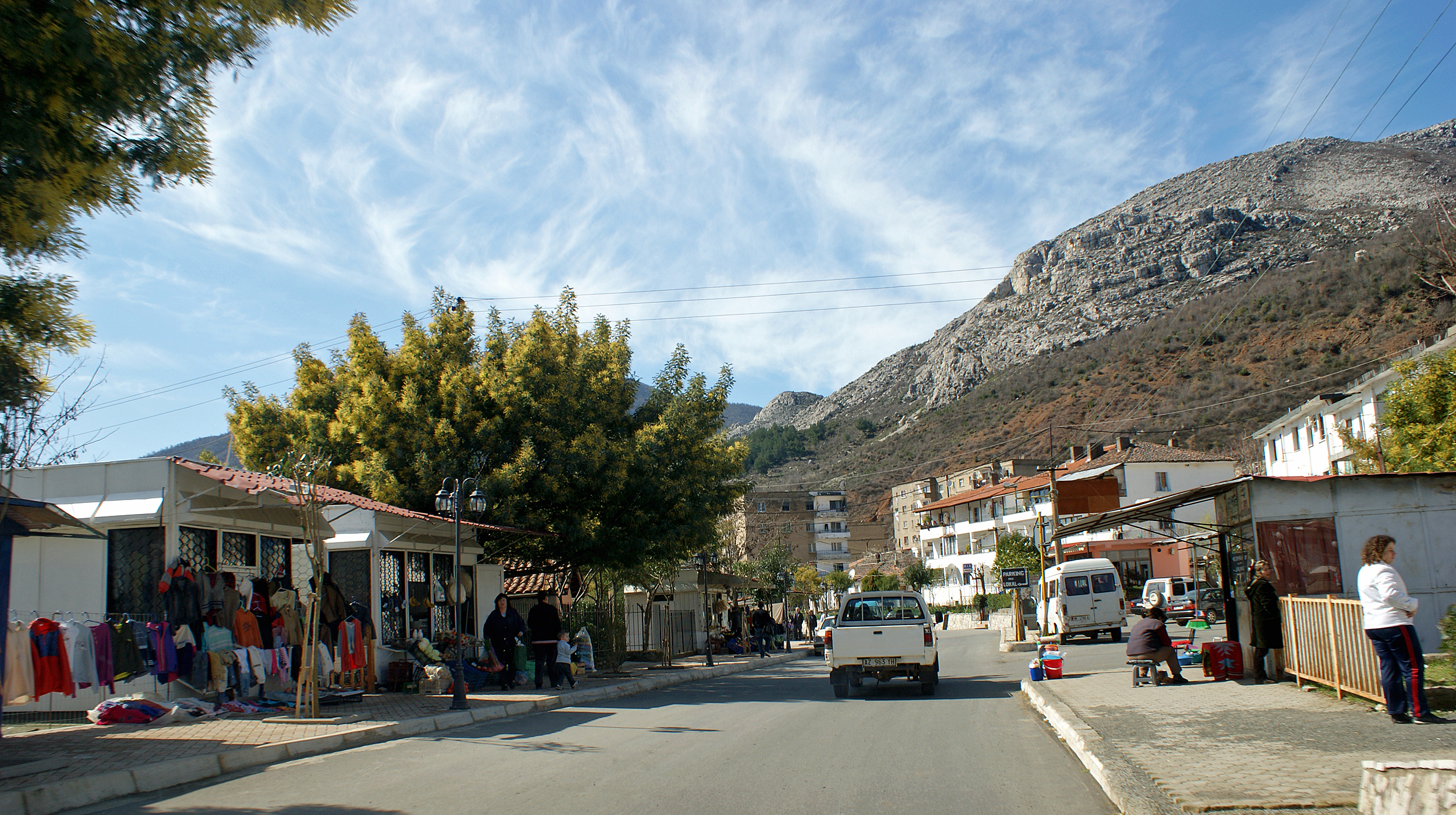 Rubik in Northern Alblania – main street